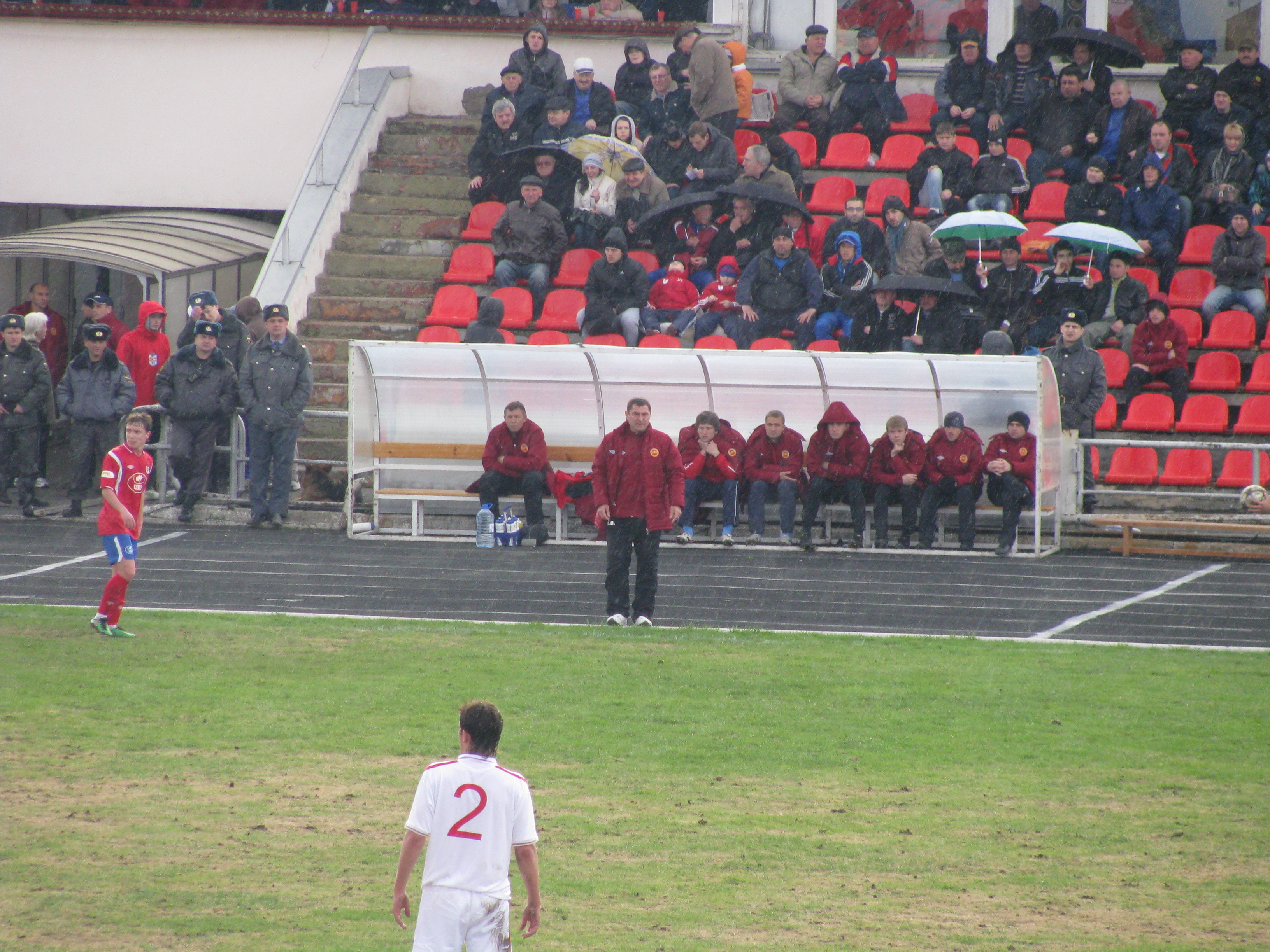 The bench of FC Mitos in the match against FC SKA Rostov-on-Don on April 17, 2011.